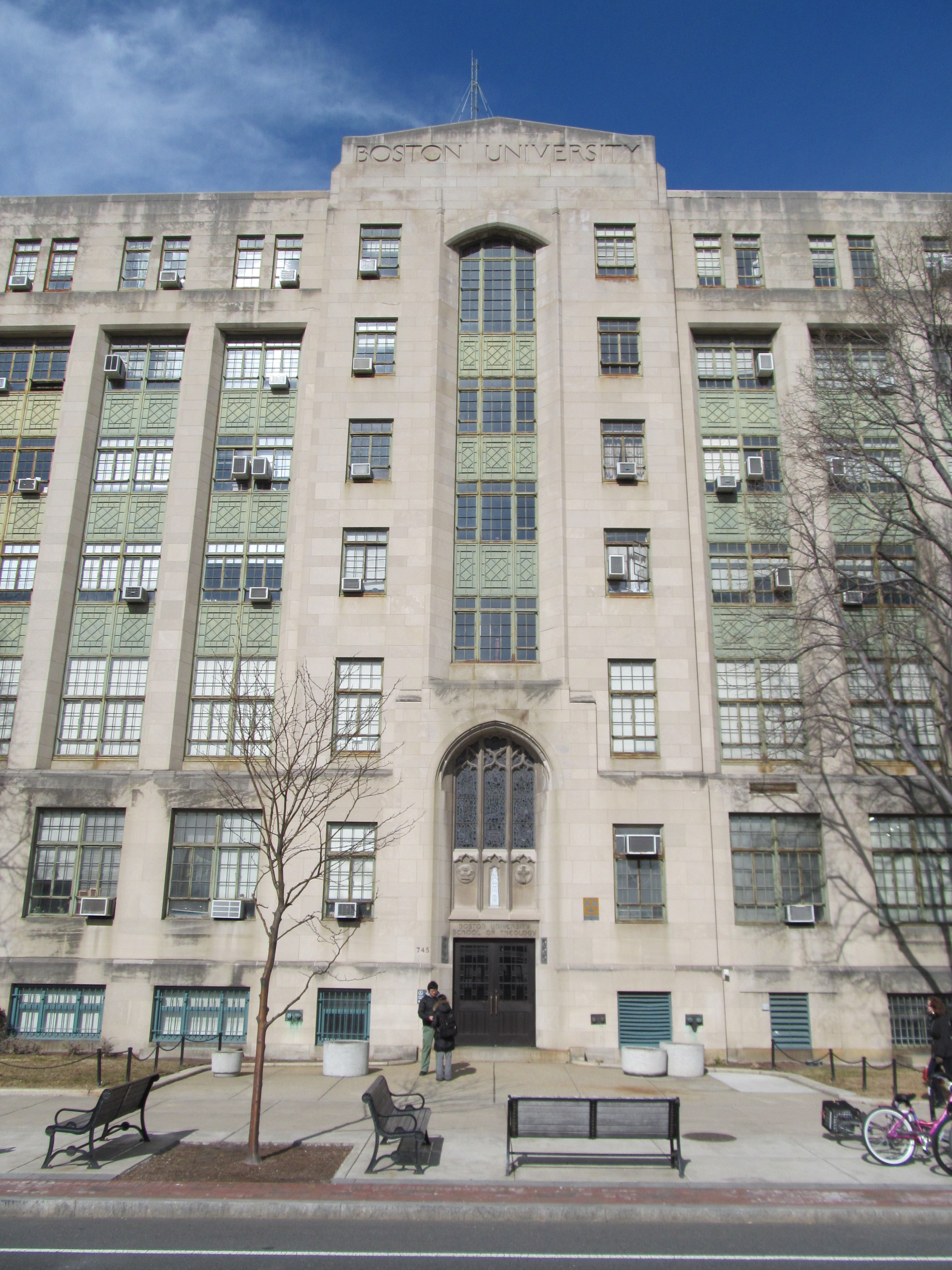 Boston University School of Theology, Boston Massachusetts